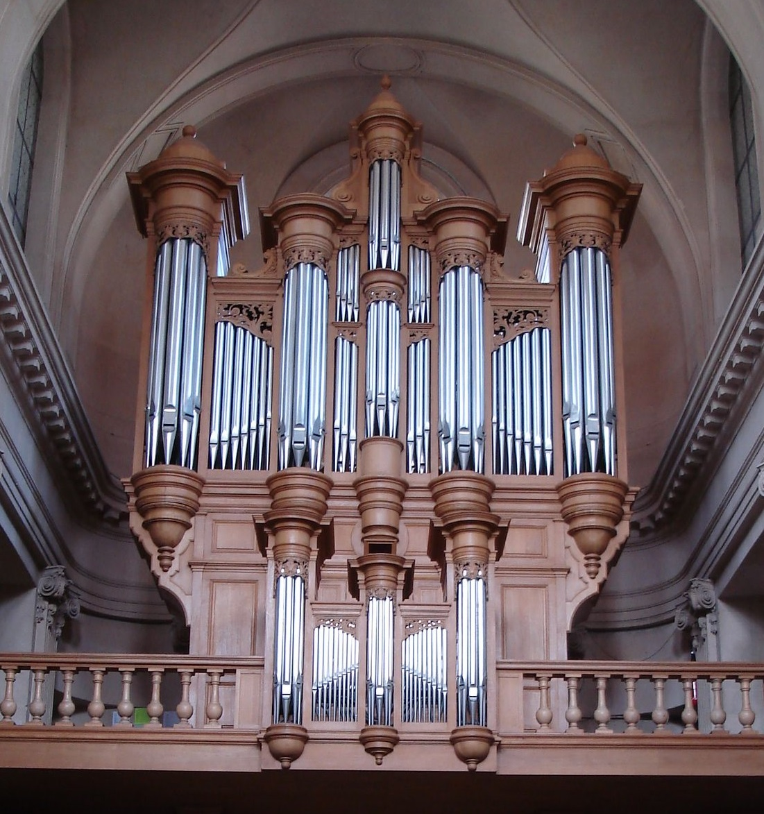 Église des Billettes: Lutheran church, rue des Archives, Paris (The Organ)